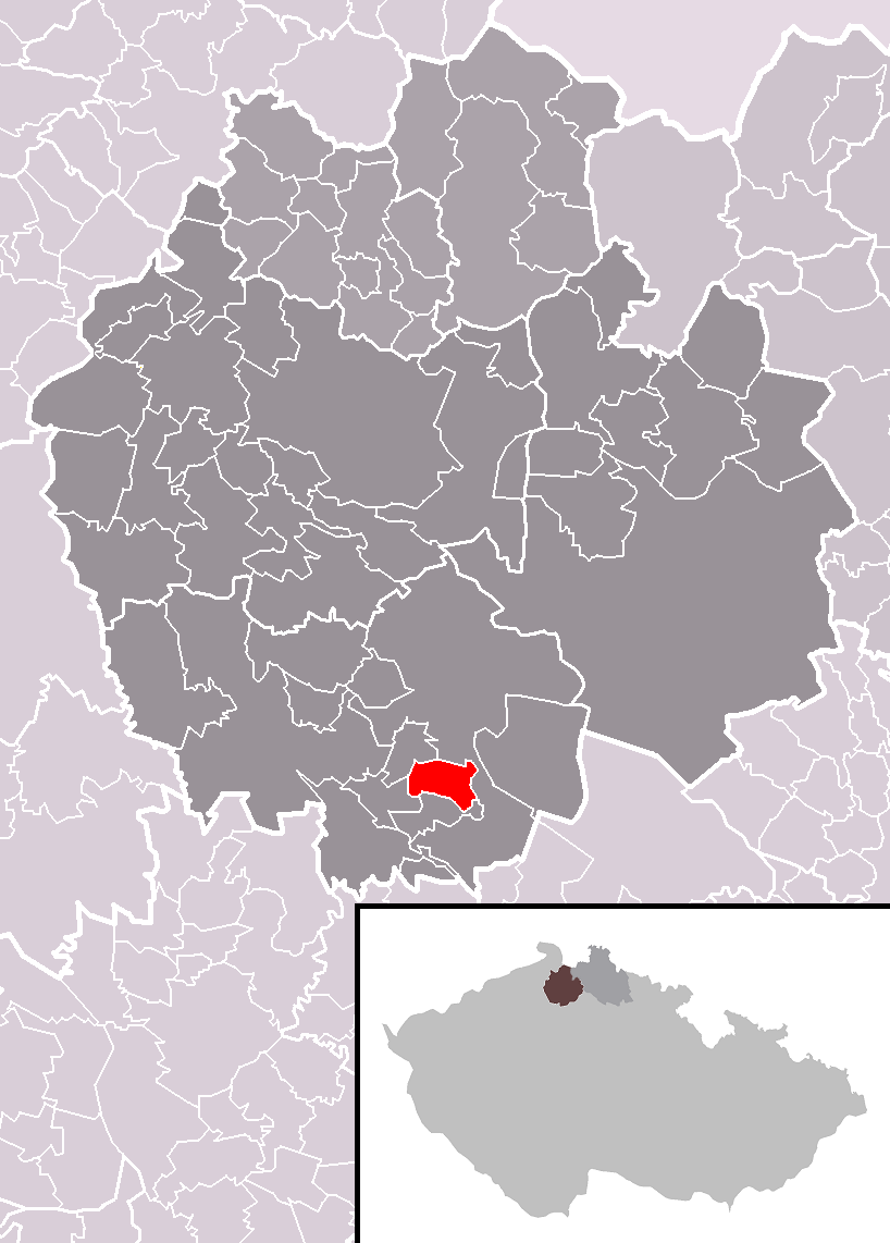 Location of Okna municipality within Česká Lípa District and administrative area of Česká Lípa as a Municipality with Extended Competence.